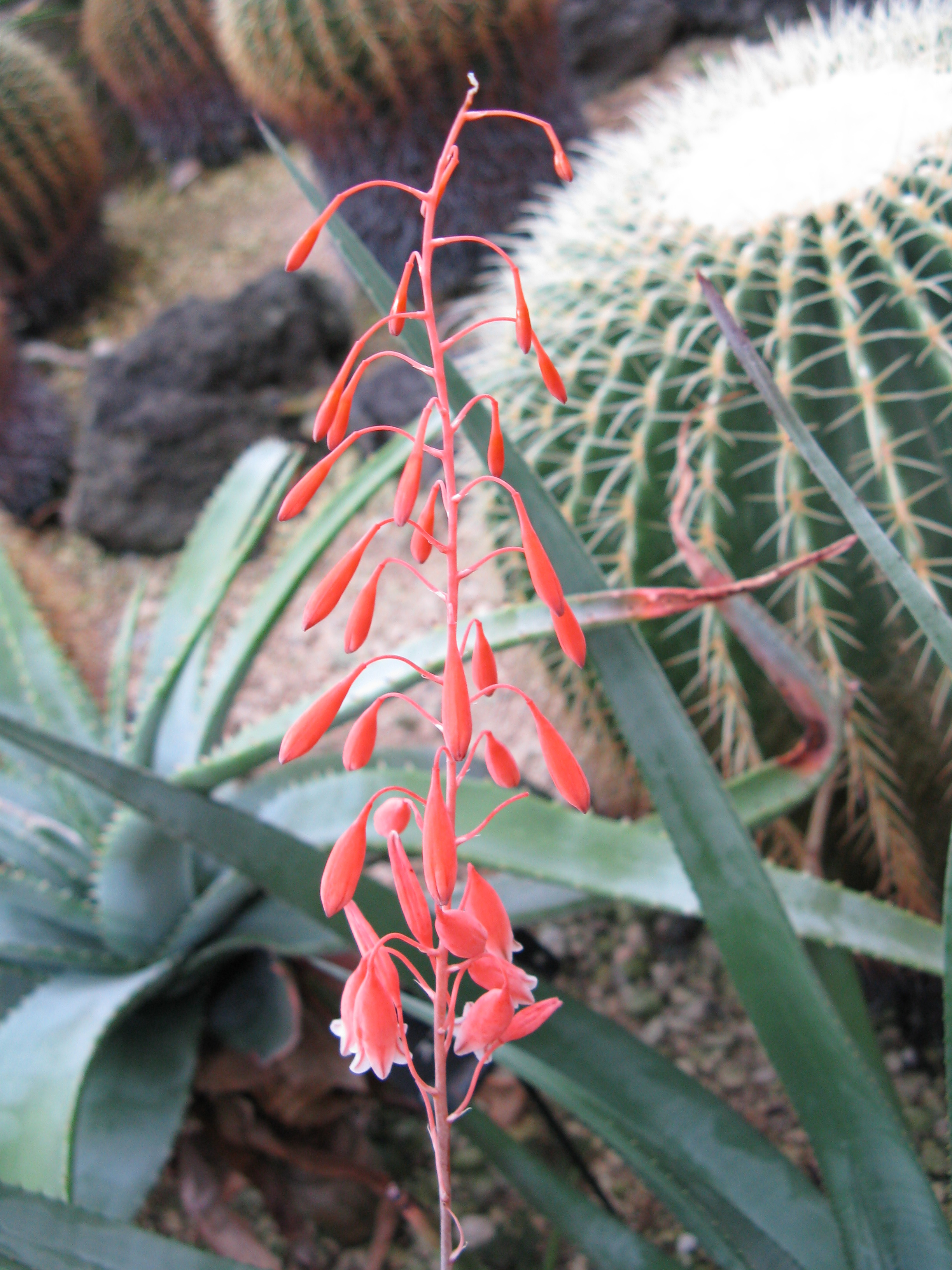 Scientific name Aloe bellatula Place:Osaka Prefectural Flower Garden,Osaka,Japan